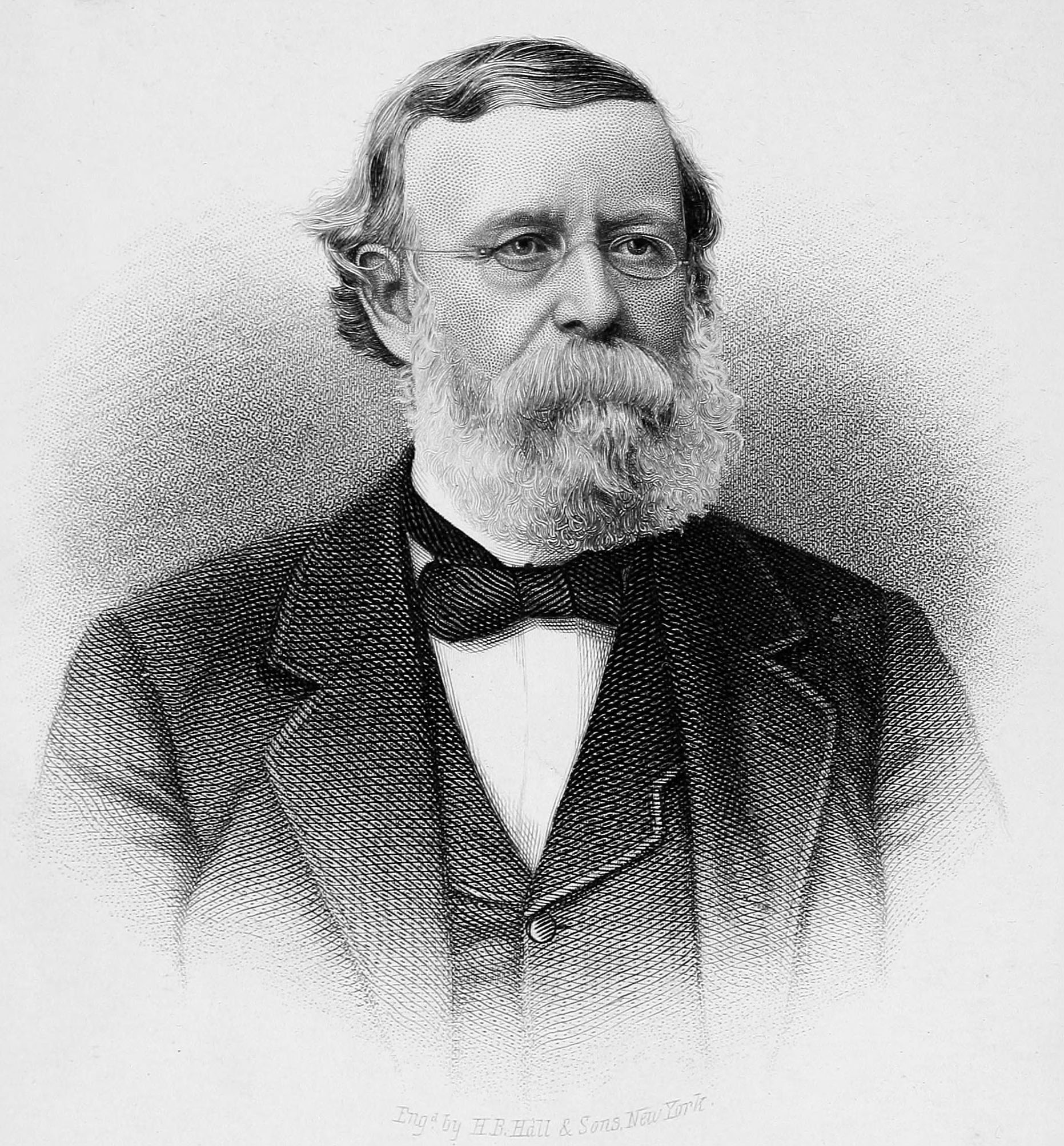 1858 President of Brooklyn Collegiate and Polytechnic Institute